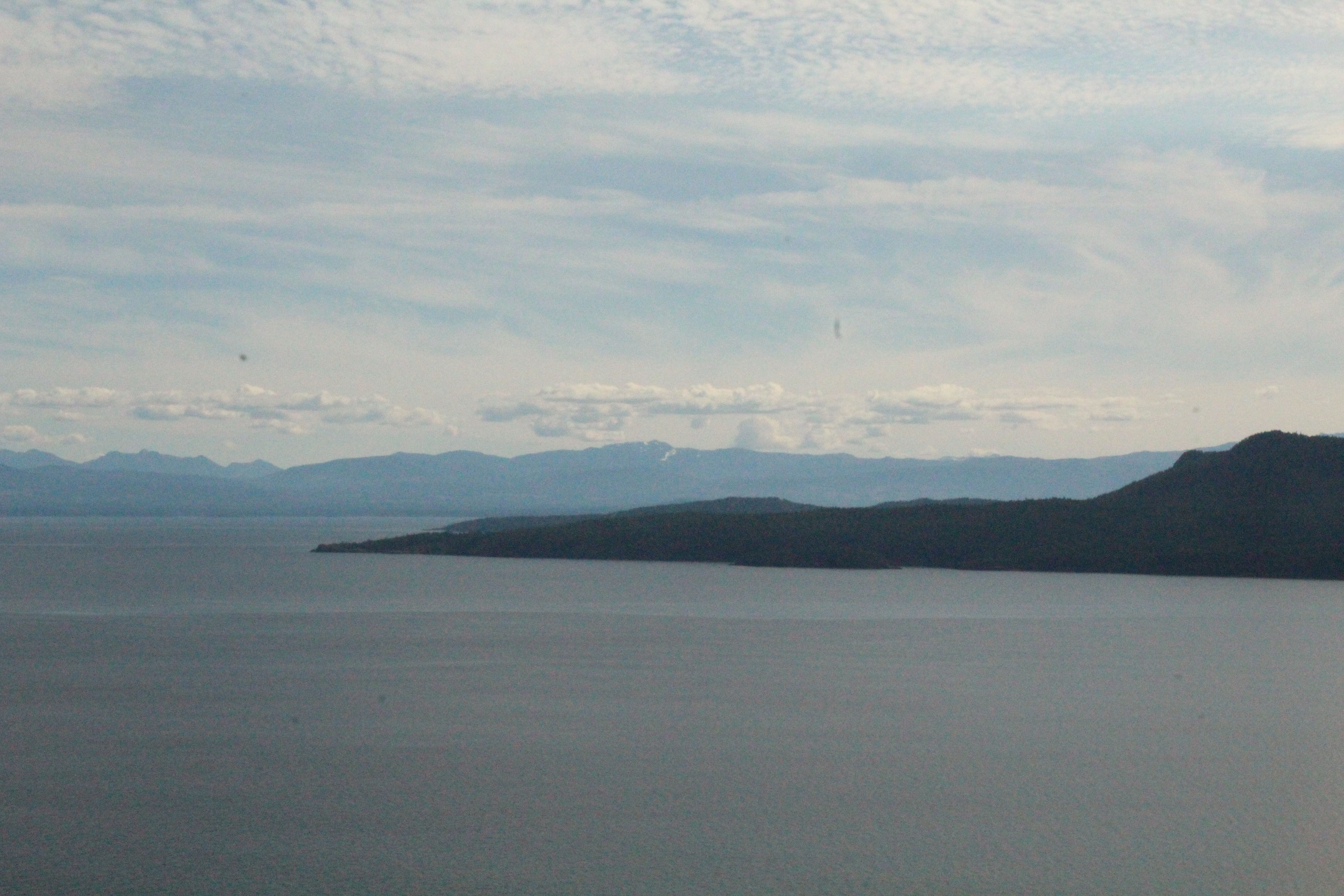 South Texada Island from a floatplane